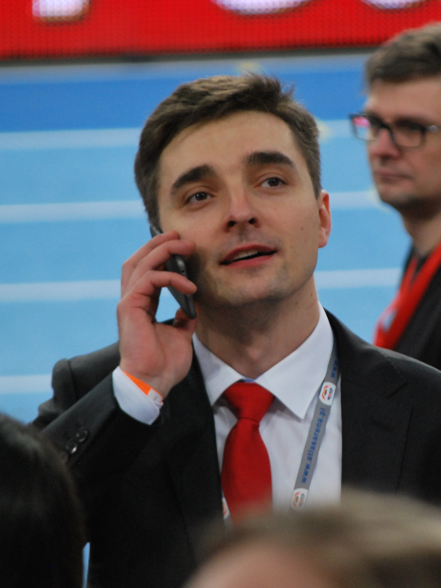 Pedros Cup 2015 Łódź, Marek Plawgo, former hurdler from Poland